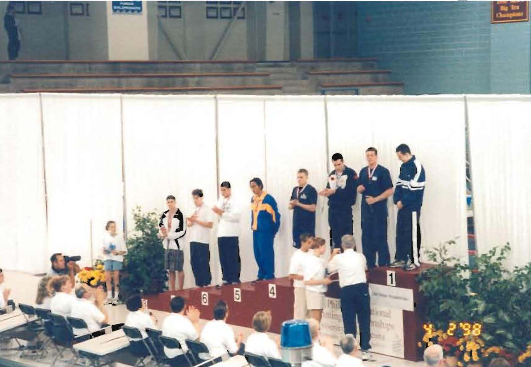 Byron Shefchik being awarded second place at the US Nationals in the Spring of 1998.